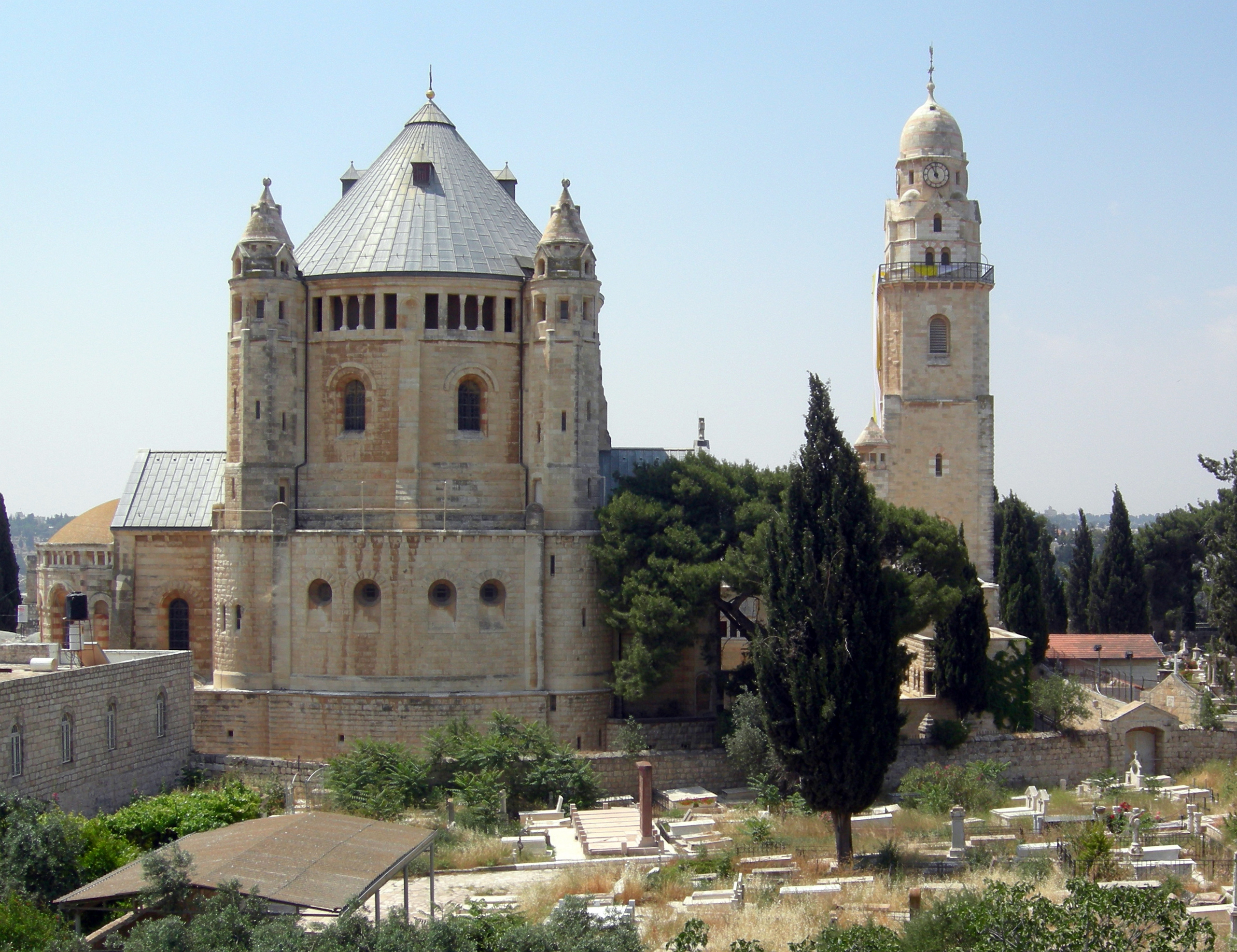 Hagia Maria Sion Abbey photographed from the Jerusalem city wall.